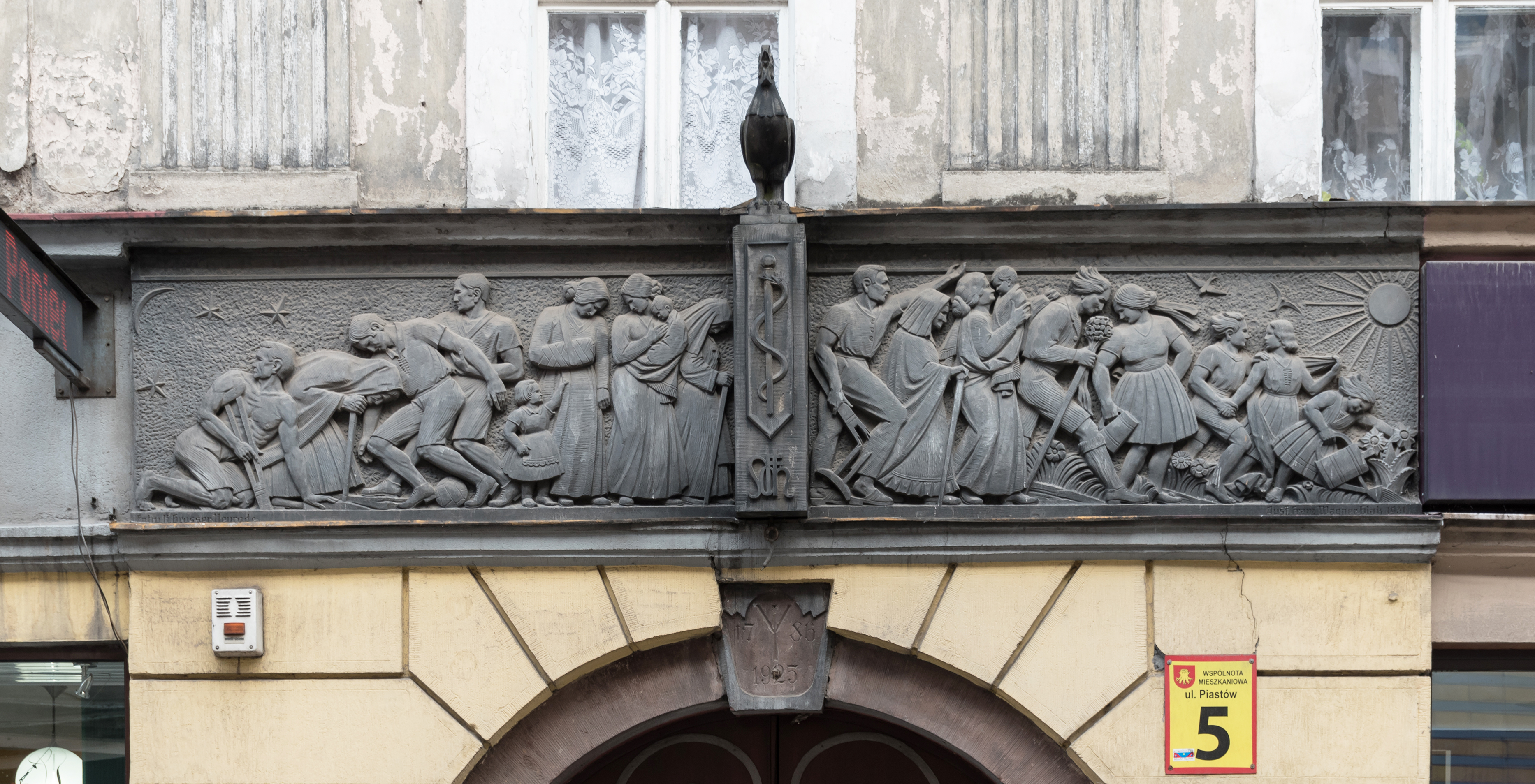 5 Piastów Street in Nowa Ruda